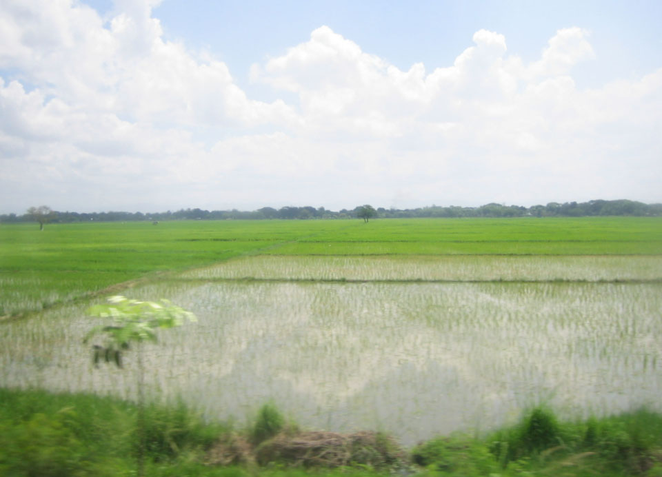 A vast paddy field in San Leonardo, Nueva Ecija, Philippines.